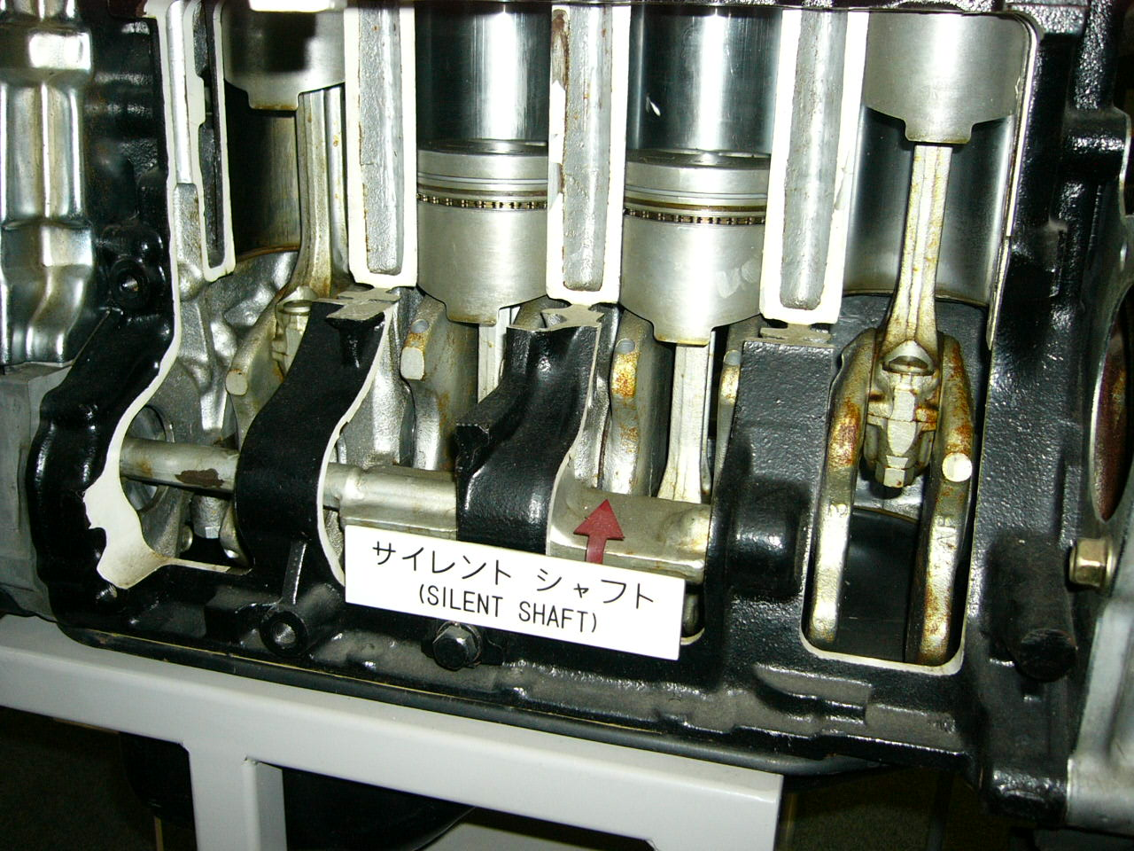 It takes a picture of the engine cutting model of Aichi Prefecture Okazai City and a Mitsubishi Auto Gallery.